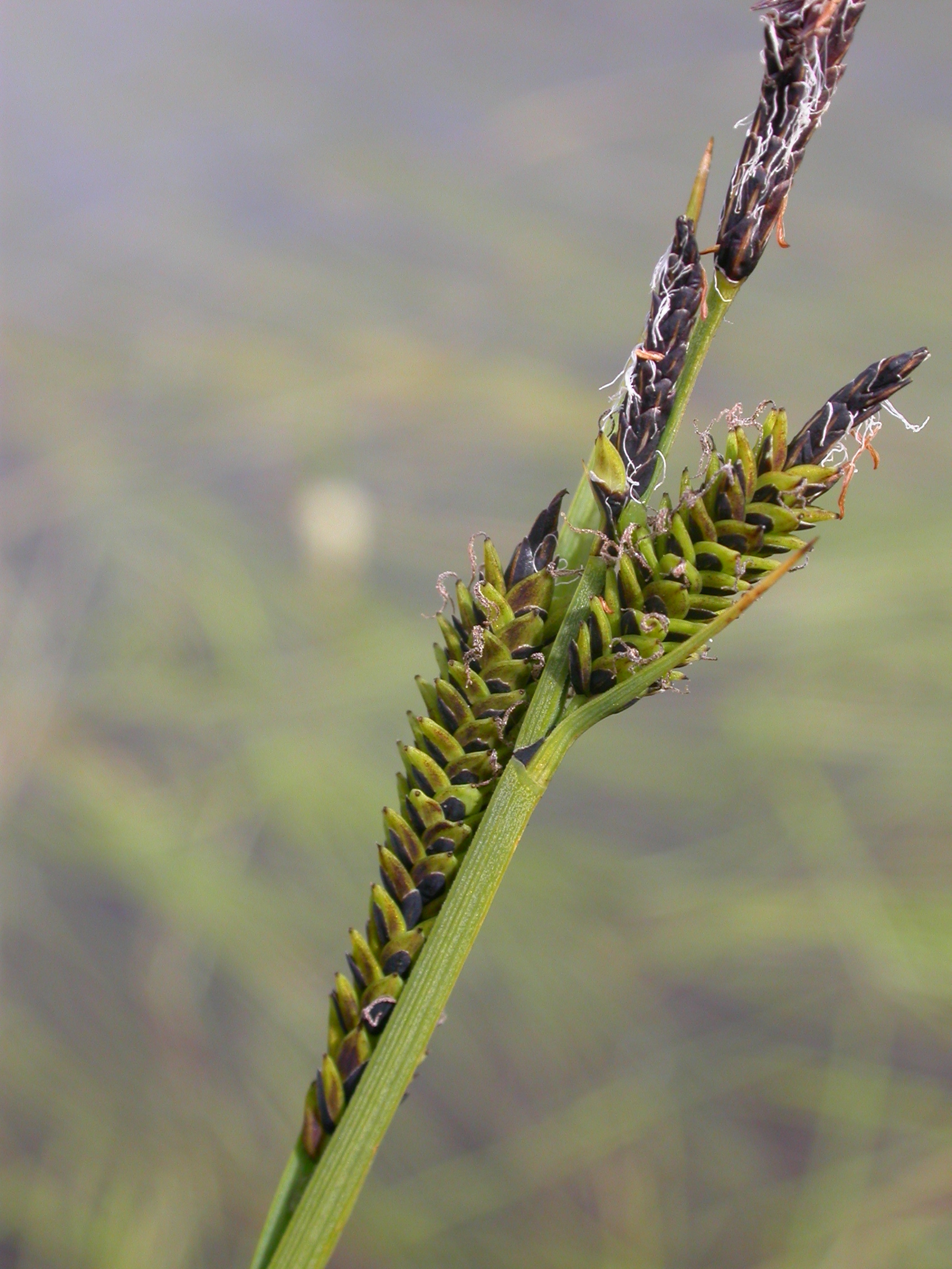 Carex nigra Zermatt, Riffelberg (Kanton Wallis, Switzerland), 2500 m Author: Barbara Studer – own photograph Date: 2.08.06